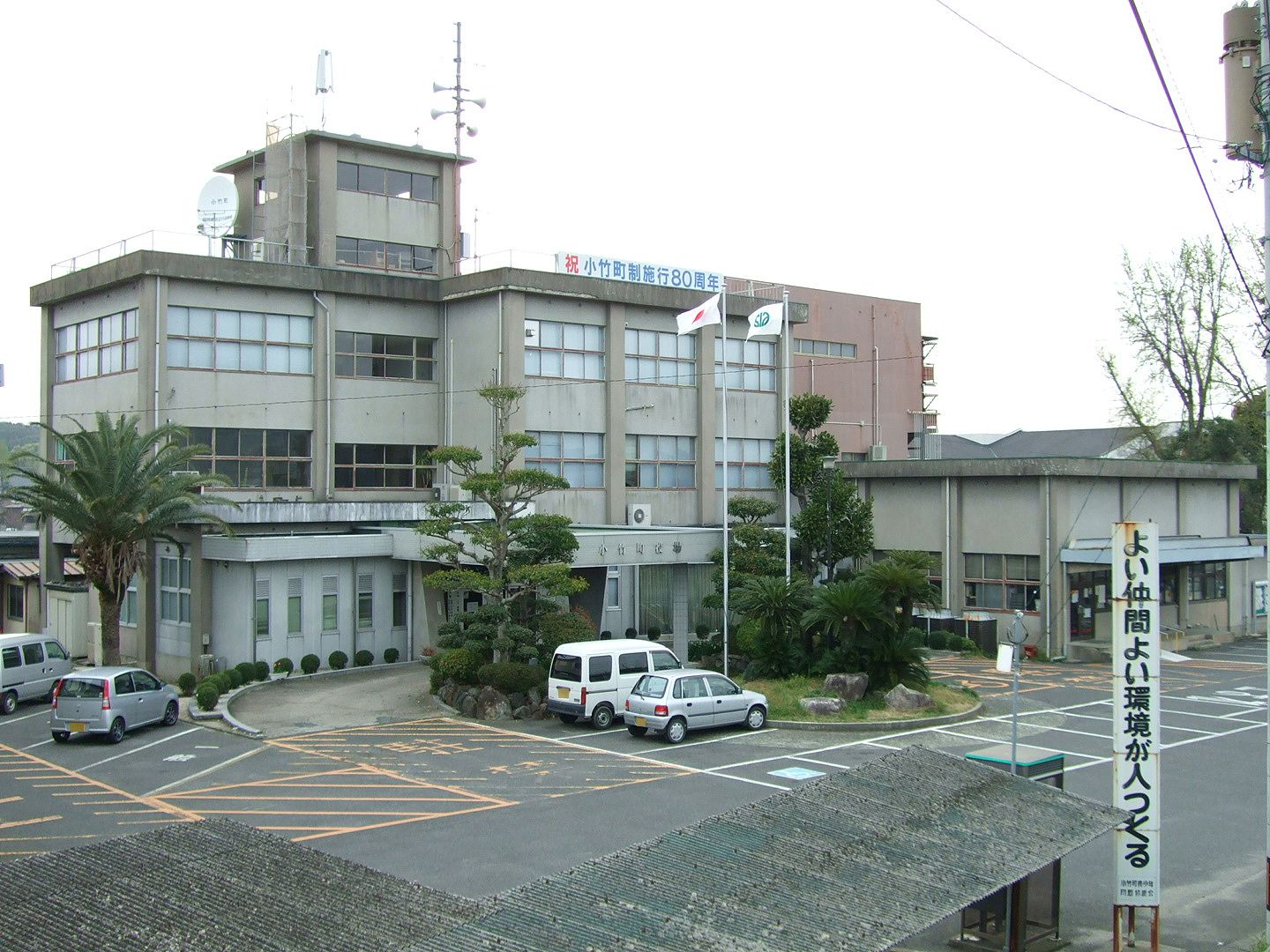 Kotake Town office